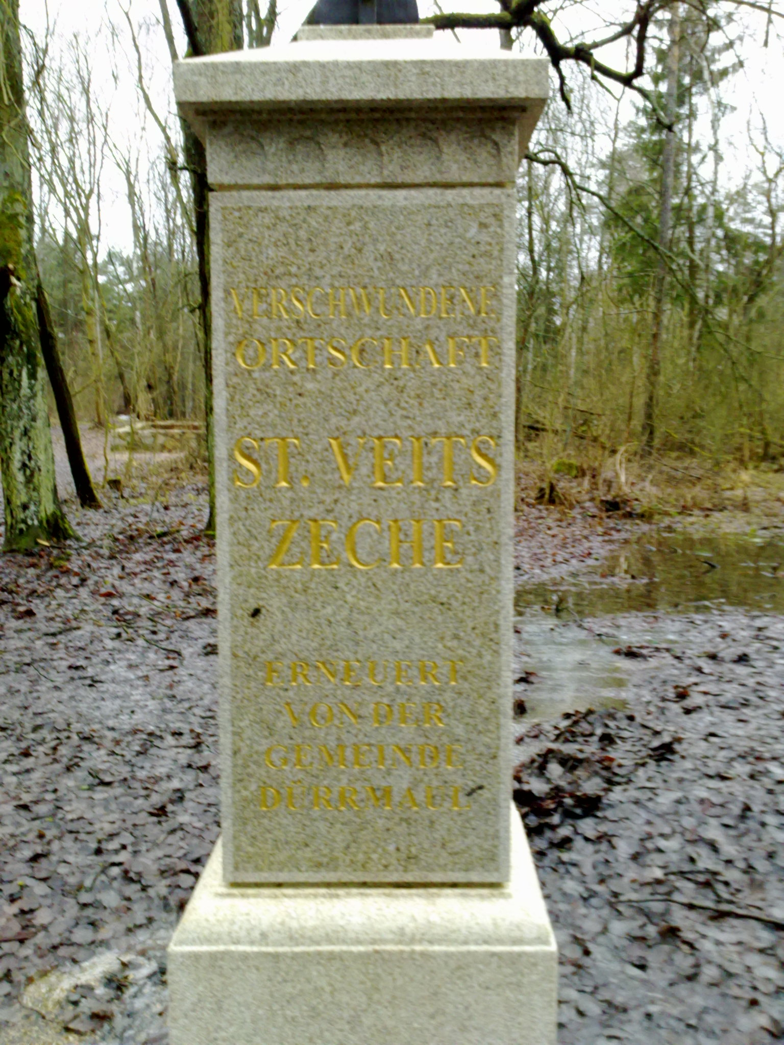 The monument of the ghost town Cech svatého Víta. (Karlovy Vary Region, Czech Republic)